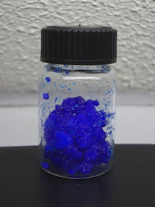 Vanadyl sulfate crystals